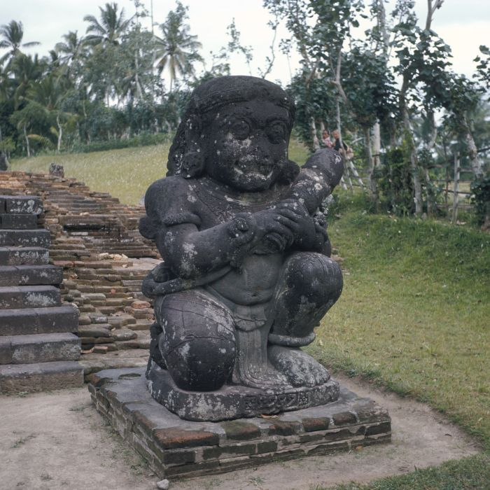 Temple guard statue at the Candi Panataran